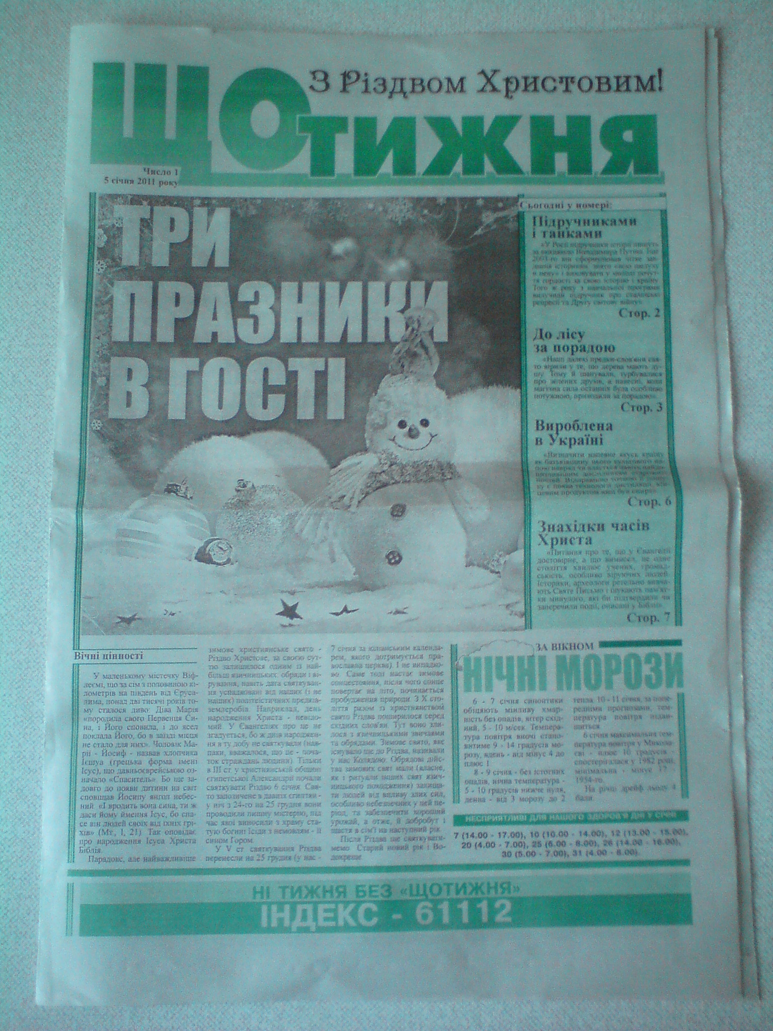 newspaper "Schotizhnya", subsidiary publication of the newspaper "Yuzhnaya Pravda", Mykolaiv Oblast